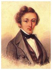 Book jacket